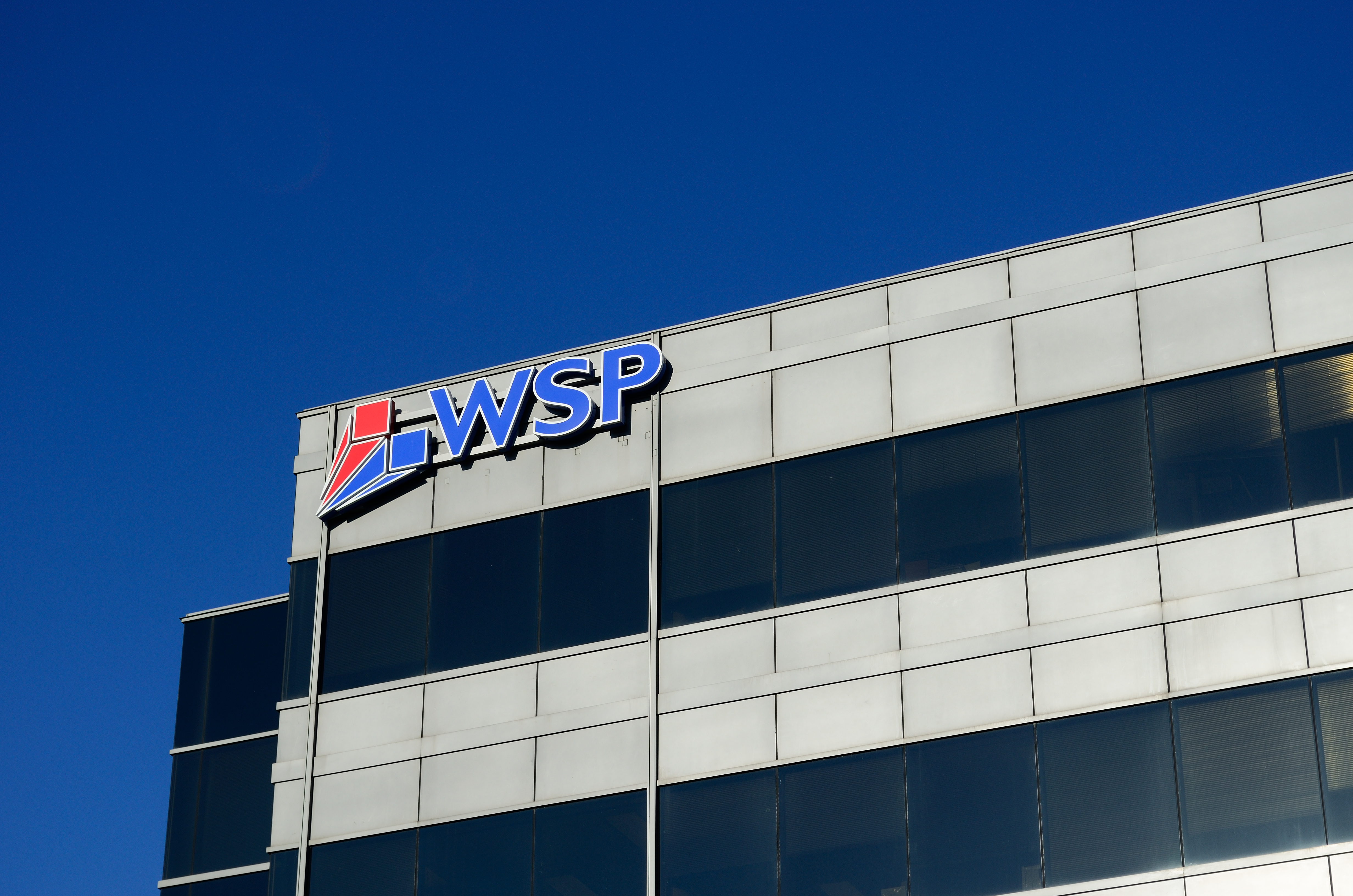 WSP office in Markham - 600 Cochrane Drive, Markham , Ontario